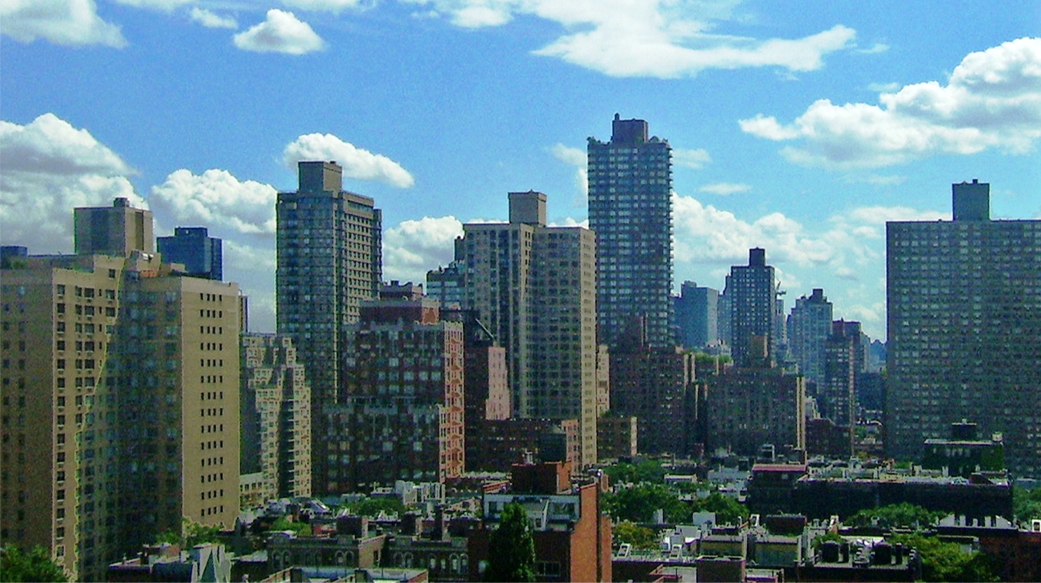 View south over Yorkville section of Manhattan from apartment on East 86th Street